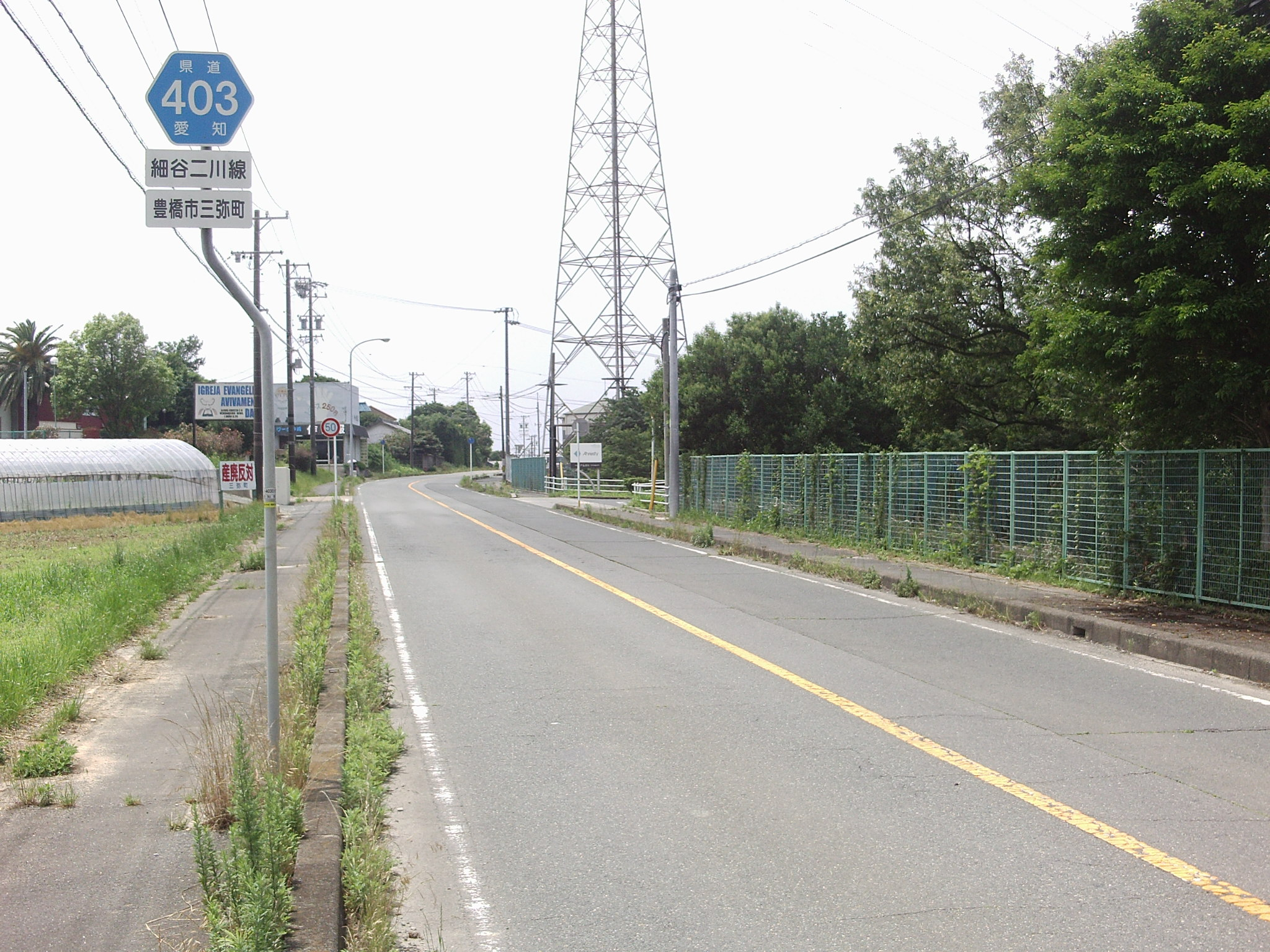 Aichi prefectural road No.403 in Mitsuyacho, Toyohashi, Aichi.